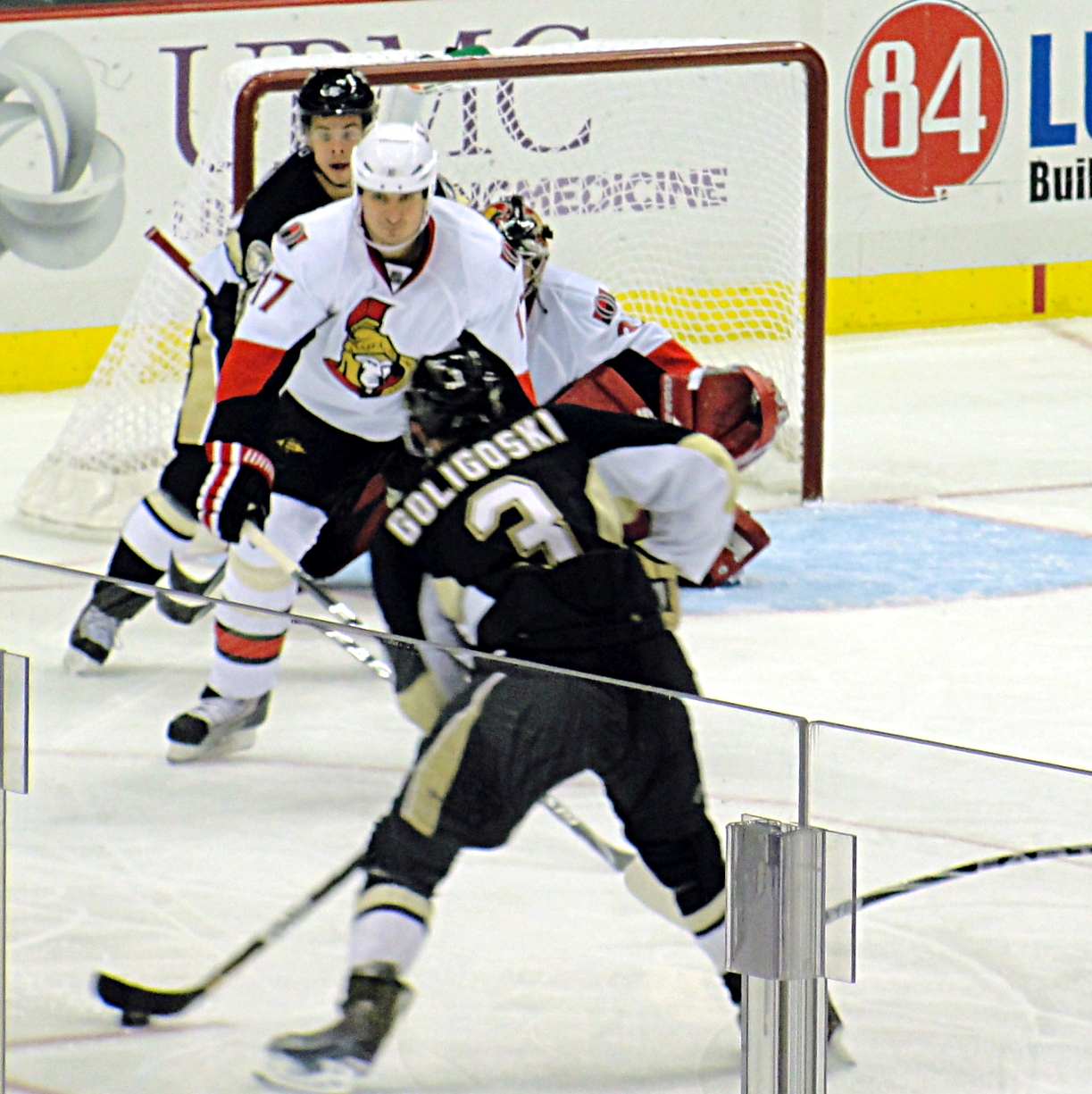 Pittsburgh Penguins defenseman Alex Goligoski prepares to score the game winning goal in a November 26, 2010 game against the Ottawa Senators at Consol Energy Center in Pittsburgh, PA.